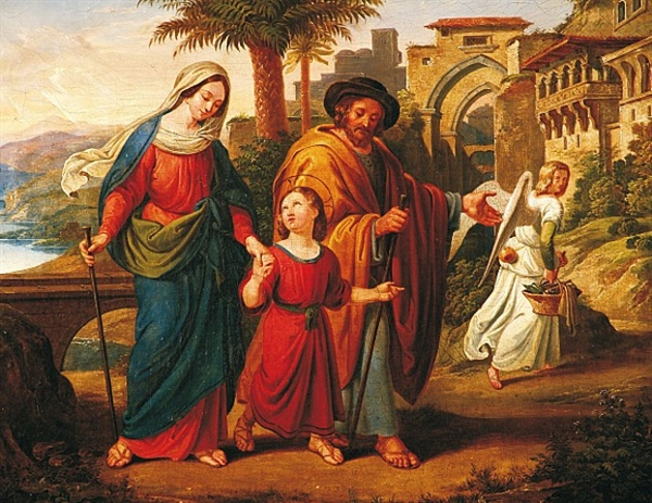 Pilgrims - Holy Family